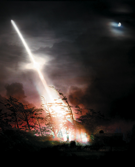 Paul Flanders' artwork based on H. P. Lovecraft's short story "The Colour out of Space".